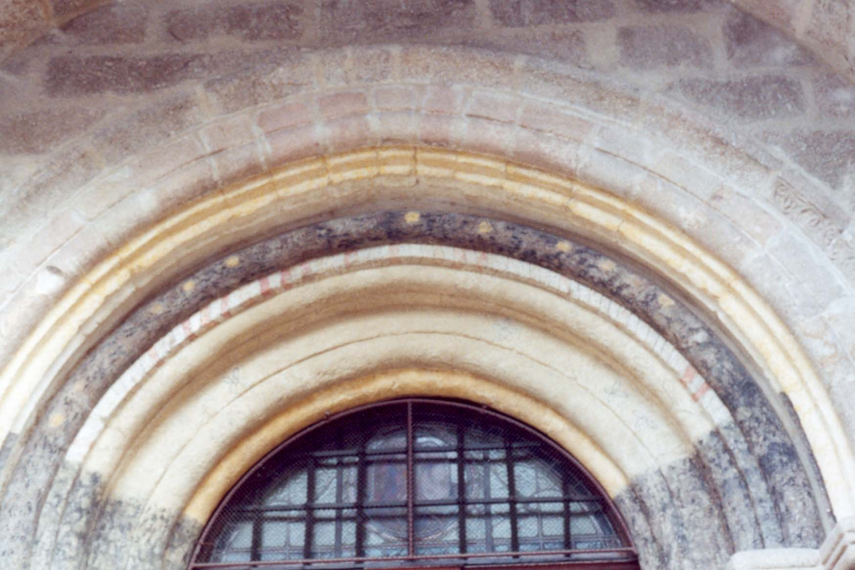 polychrome curves of the tympanum of the church of Dunières author: Jean-Pierre Riocreux 2001